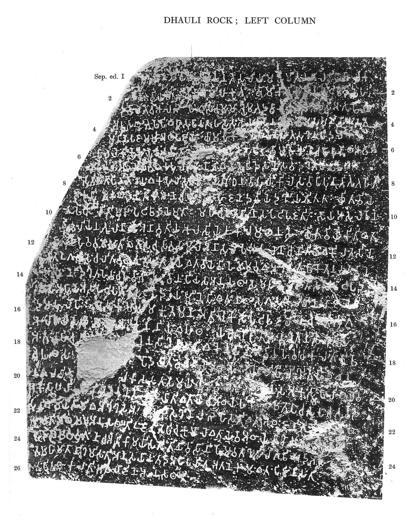 First Separate Rock Edict in Dhauli